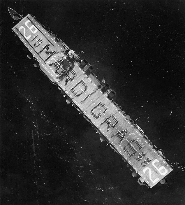 The U.S. Navy light aircraft carrier USS Monterey (CVL-26) underway in the Gulf of Mexico, 29 January 1953, with her crew on her flight deck spelling out "MARDI GRAS 53". Note that all her guns have been removed. She was then serving as training carrier, operating out of Pensacola, Florida (USA), a duty she performed from January 1951 until June 1955.